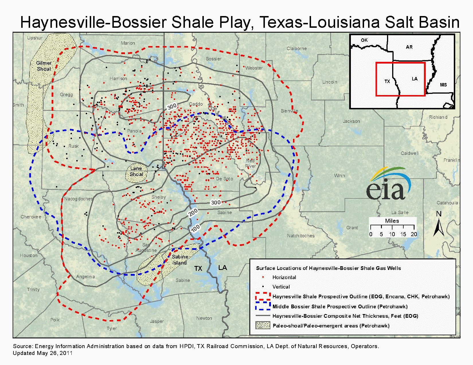 Map showing extent of the Haynesville Shale natural gas play in nothwest Louisiana and East Texas